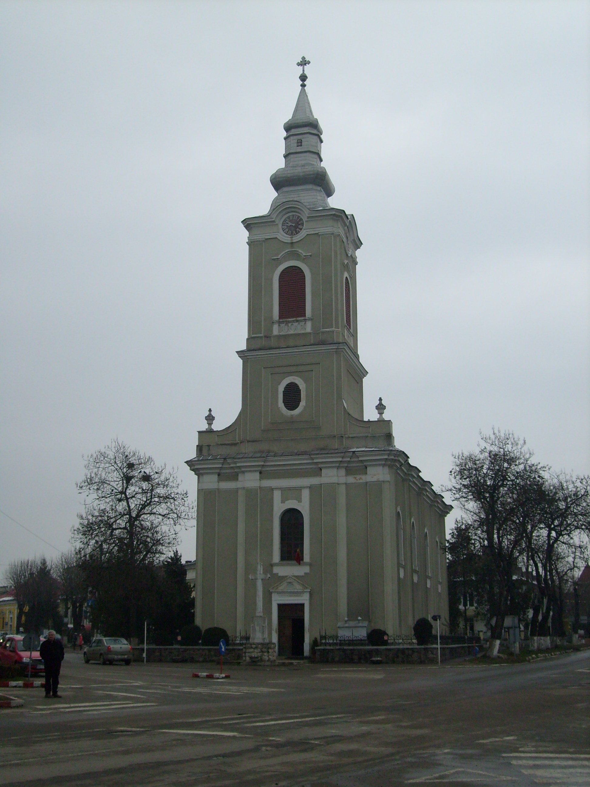 Greek-Catholic Church, Beius, Bihor County.